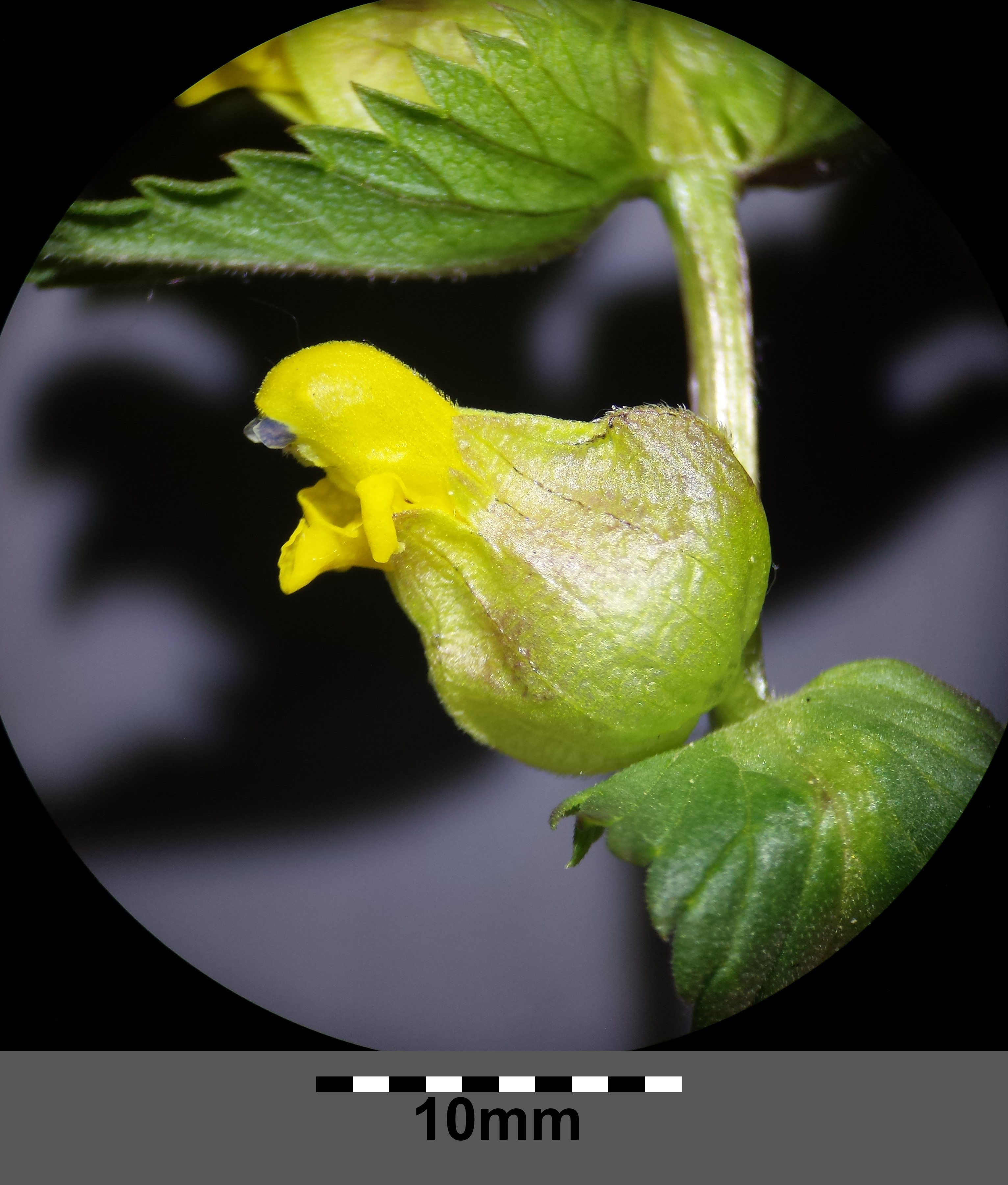 Flower Taxonym: Rhinanthus minor ss Fischer et al. EfÖLS 2008 ISBN 978-3-85474-187-9 Location: Schwarze Lacke, Vienna-Floridsdorf - ca. 160 m a.s.l. Habitat: dry meadows